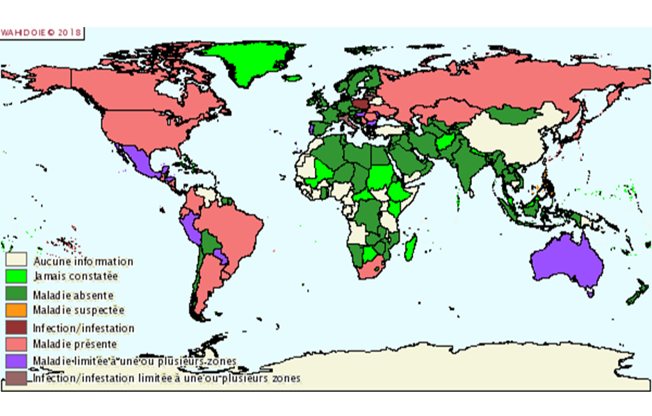 Obtained by query from the OIE website. The map illustrtes the worldwide Enzootic Bovine Leukemia status of countries in 2017.